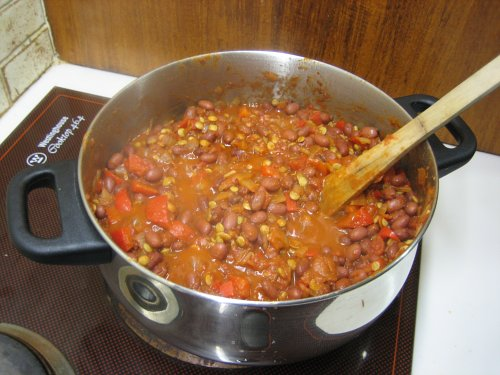 Pot of Chili sin carne, cooking on the stove.